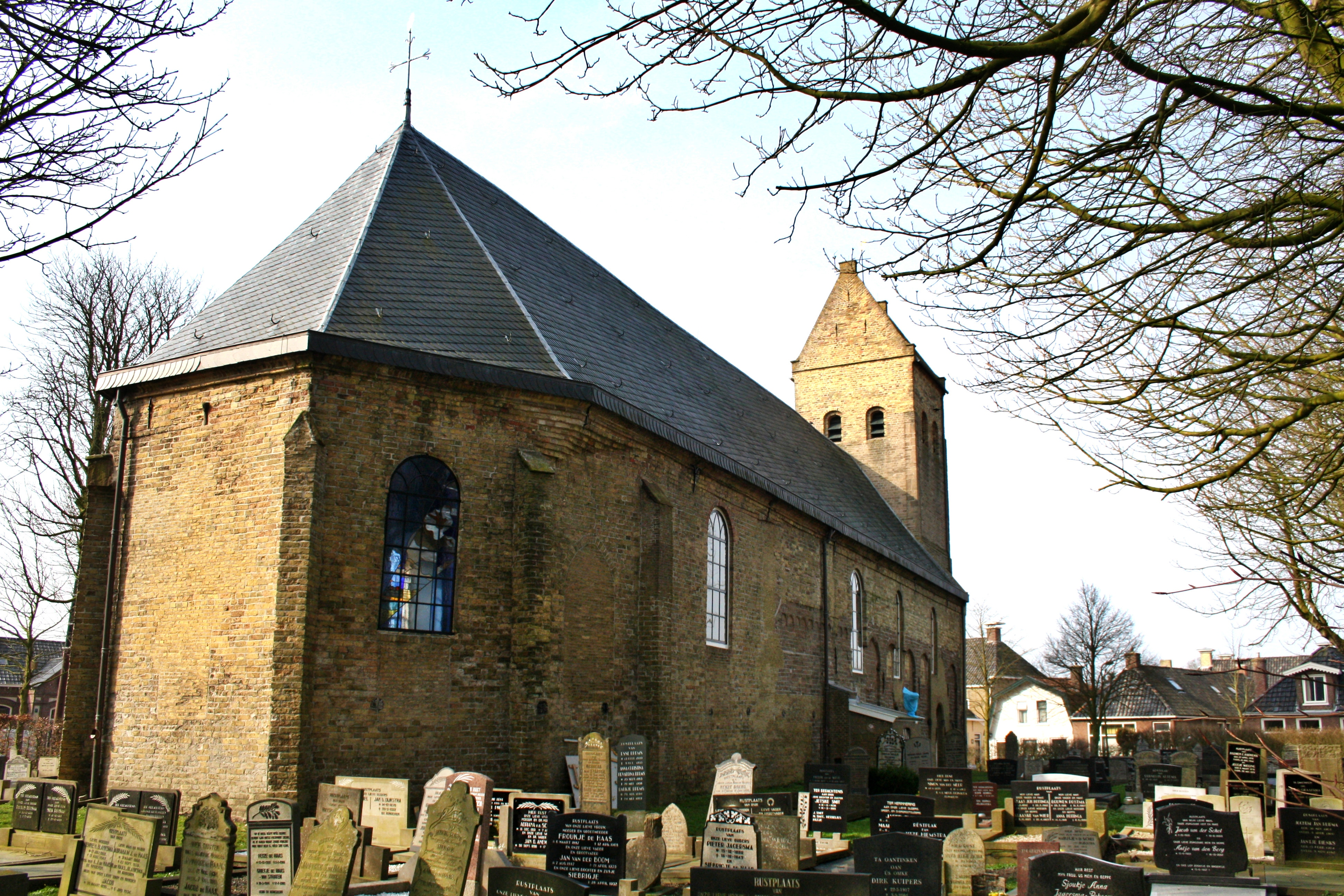 Kimswerd - St. Laurentiuschurch